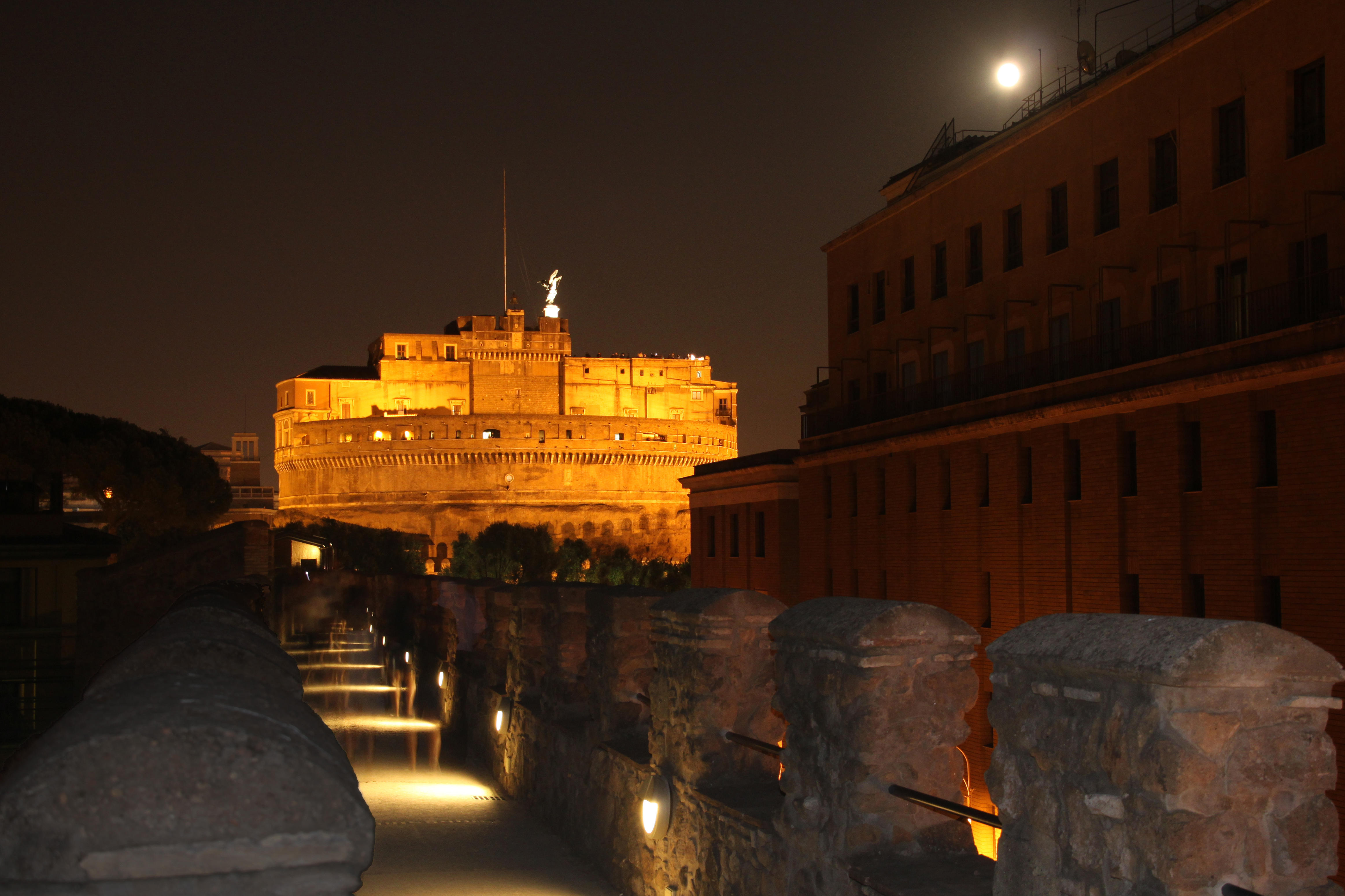 The secret passageway Passetto di Borgo, Castel Sant'Angelo and, to the right, the Palazzo Pio in Rome (Italy) by night at full moon.